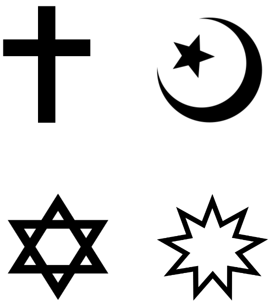 The symbols of Christianity, Islam, Judaism, Baha'i. Anyone can use this image The majority of religious Islamic publications emphasize that the crescent is rejected, "by many Muslim scholars".[1] ↑ "many Muslim scholars reject using the crescent moon as a symbol of Islam. The faith of Islam historically had no symbol, and many refuse to accept it." Fiaz Fazli, Crescent magazine, Srinagar, September 2009, p. 42.